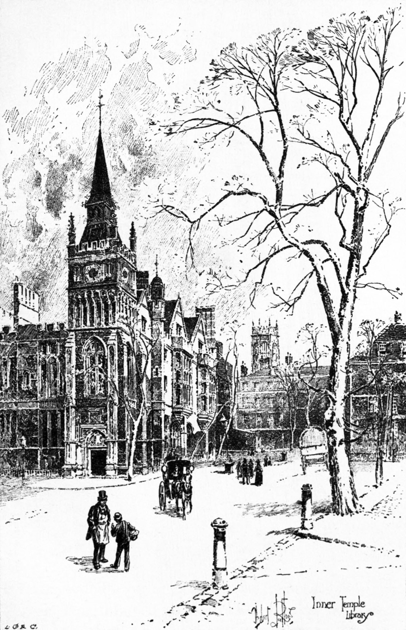 Herbert Railton's illustration of the Inner Temple Library